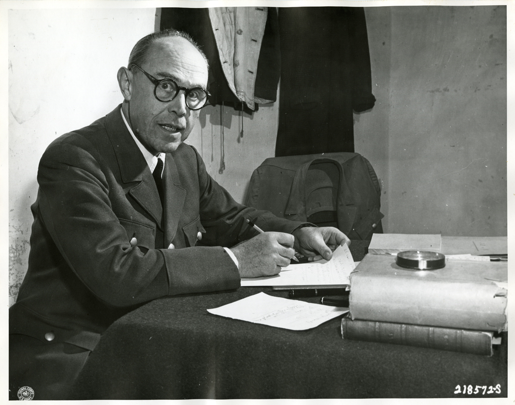 German Luftwaffe Generalfeldmarschall Albert Kesselring photographed at a table in a room, with pencil and paper in hand. Kesselring was a witness at the Nuremberg Trials, where this photograph was taken. Gelatin silver process on paper. 28 cm x 35.3 cm. Image courtesy of the Harvard Law School Library, Harvard University, Cambridge, Mass.